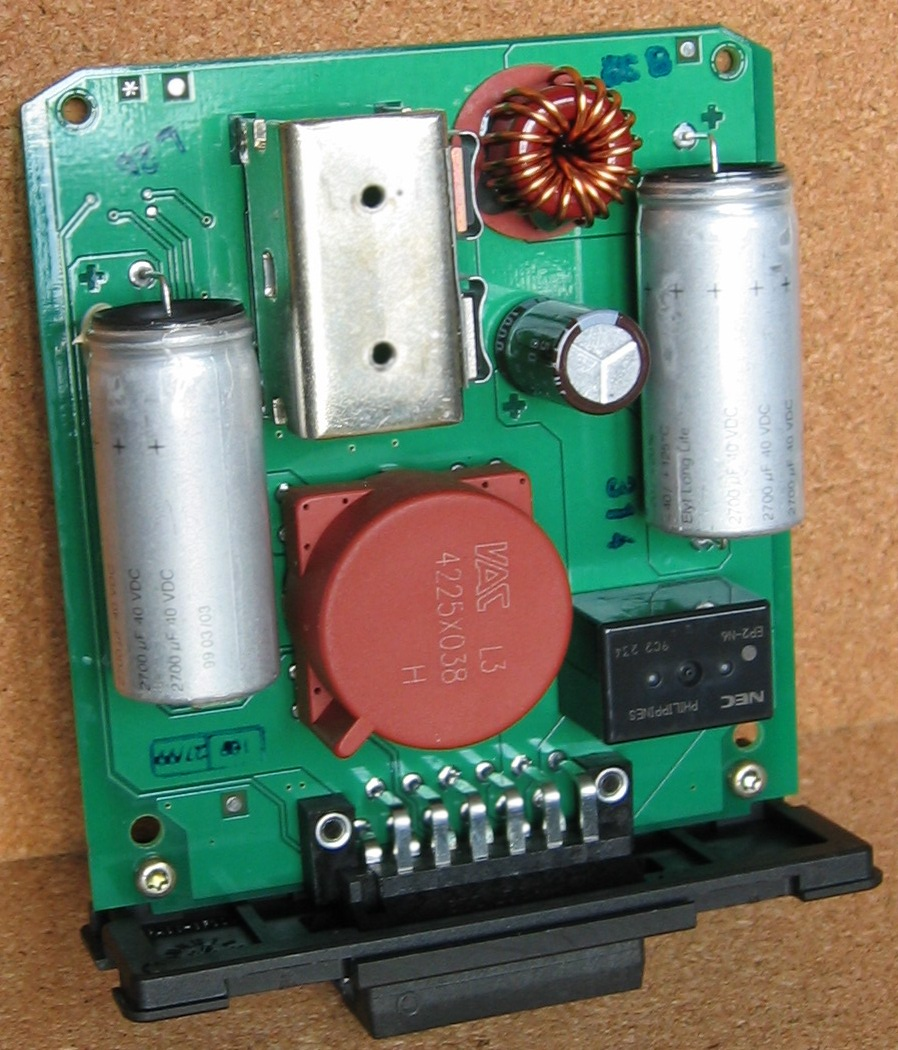 14 volts boost converter used in VW Lupo 3L 1.x TDI to supply engine controller and other electronic devices during engine start